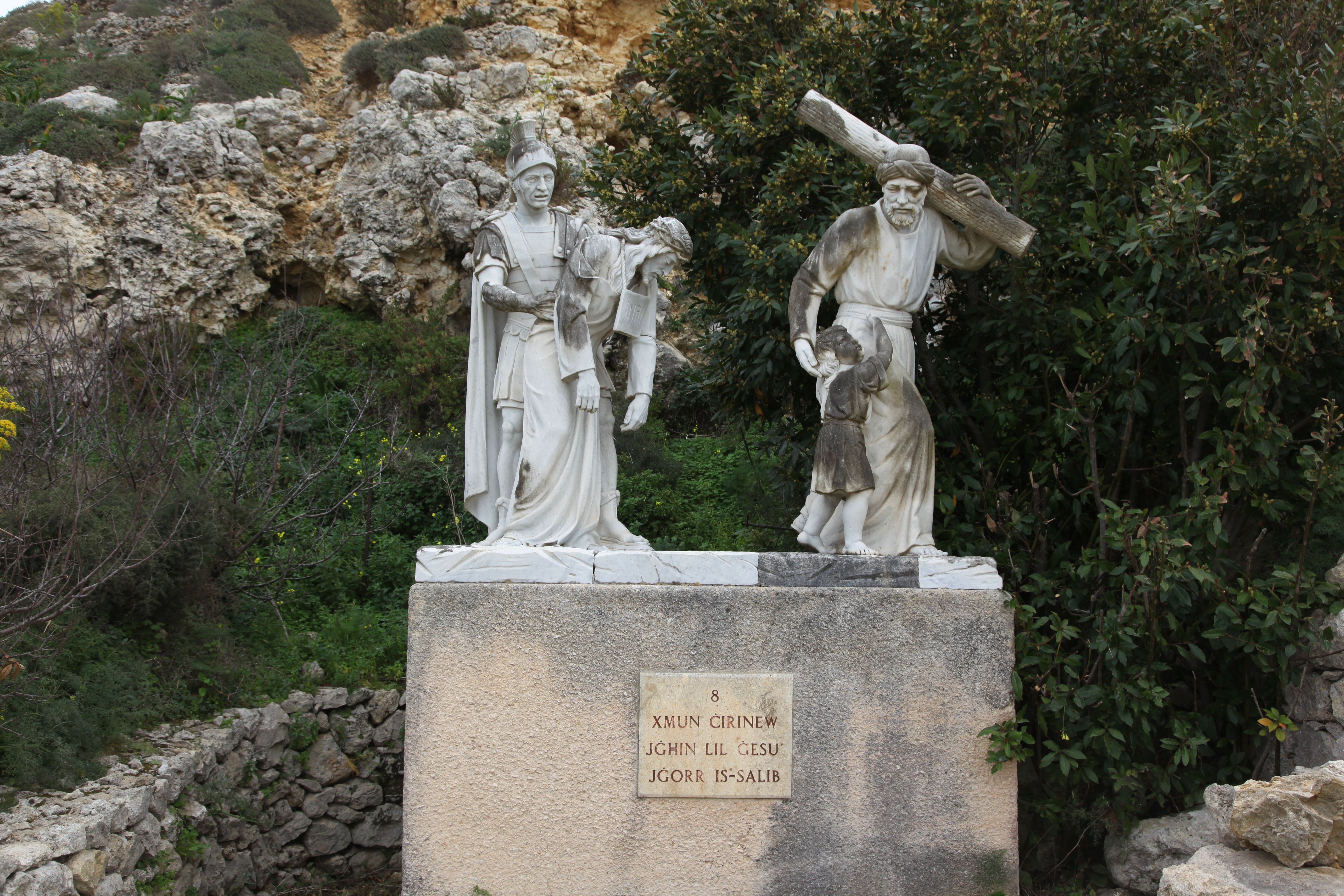 The Way of the Cross of Ta Pinu Sanctuary station 8